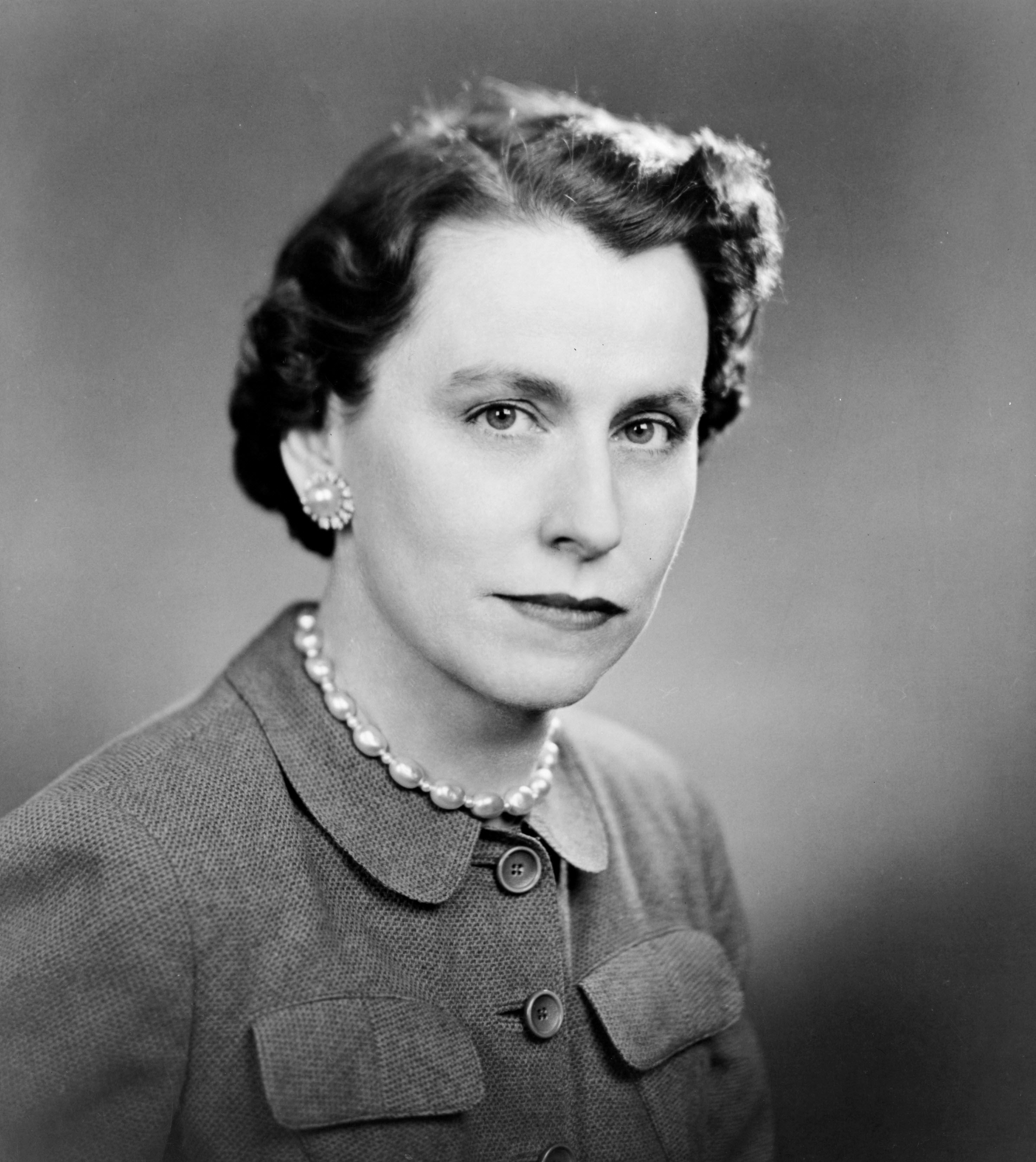 Congresswoman Martha Griffiths of Michigan